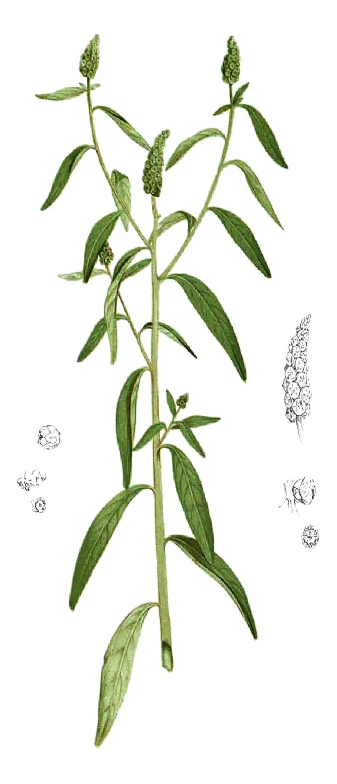 Plate from book